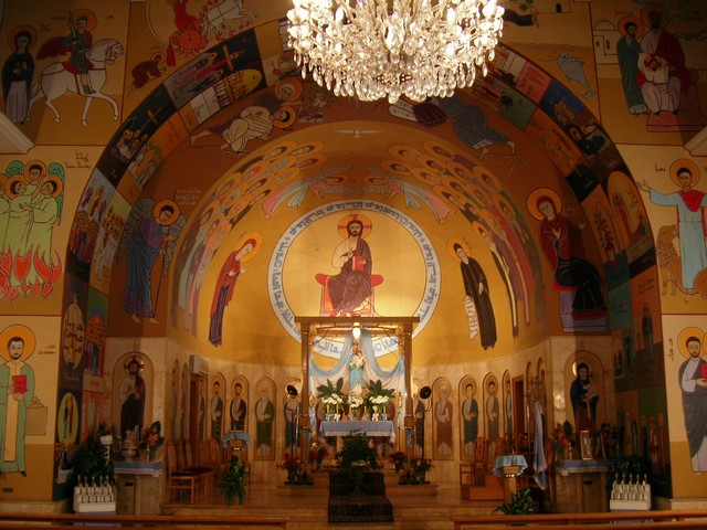 Saint Ephrem the Syrian's Church, Aleppo